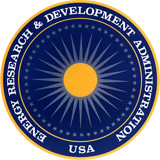 Seal of the United States Energy Research and Development Administration